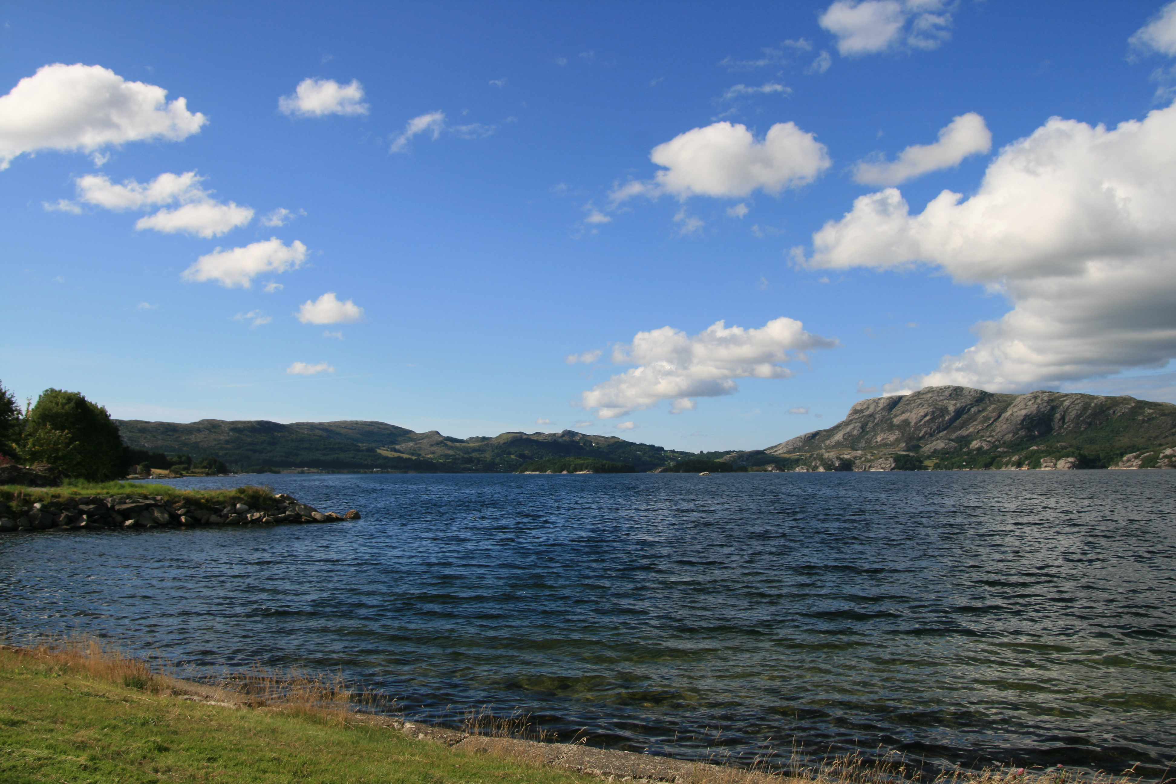 Aksdalsvatnet